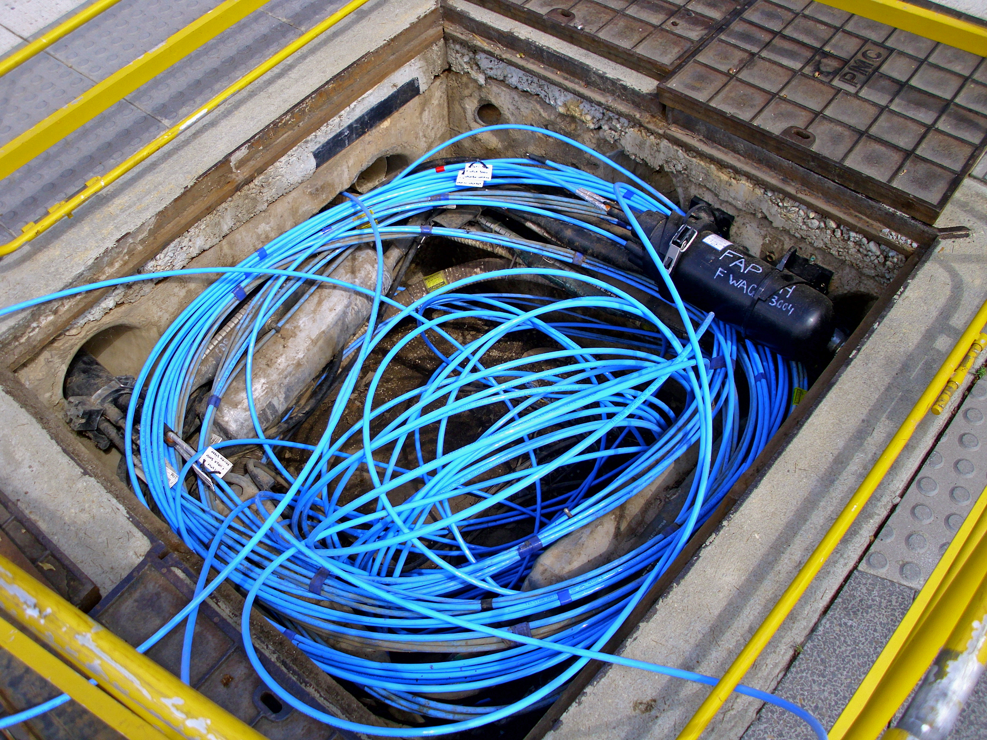 Fibre-optic cable and two fibre splicers in a Telstra pit/duct.